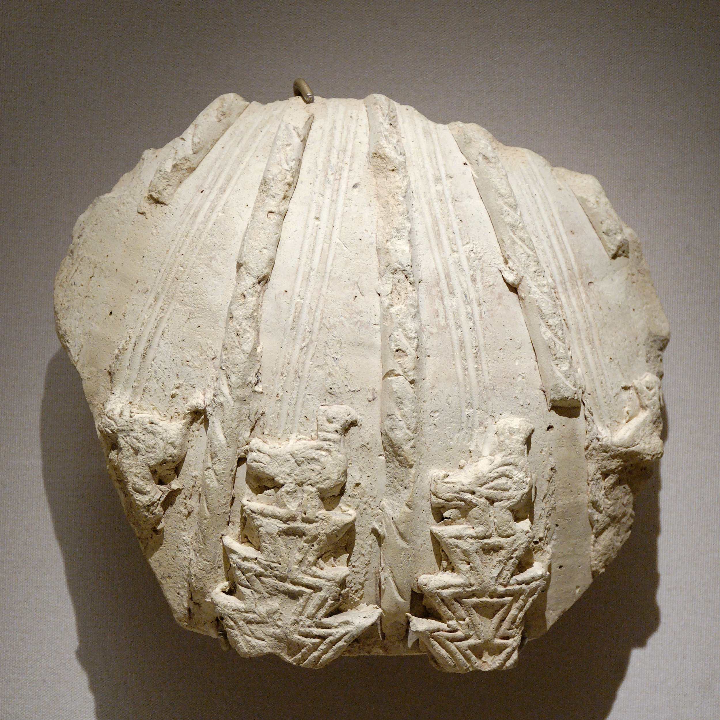 Jar fragment.